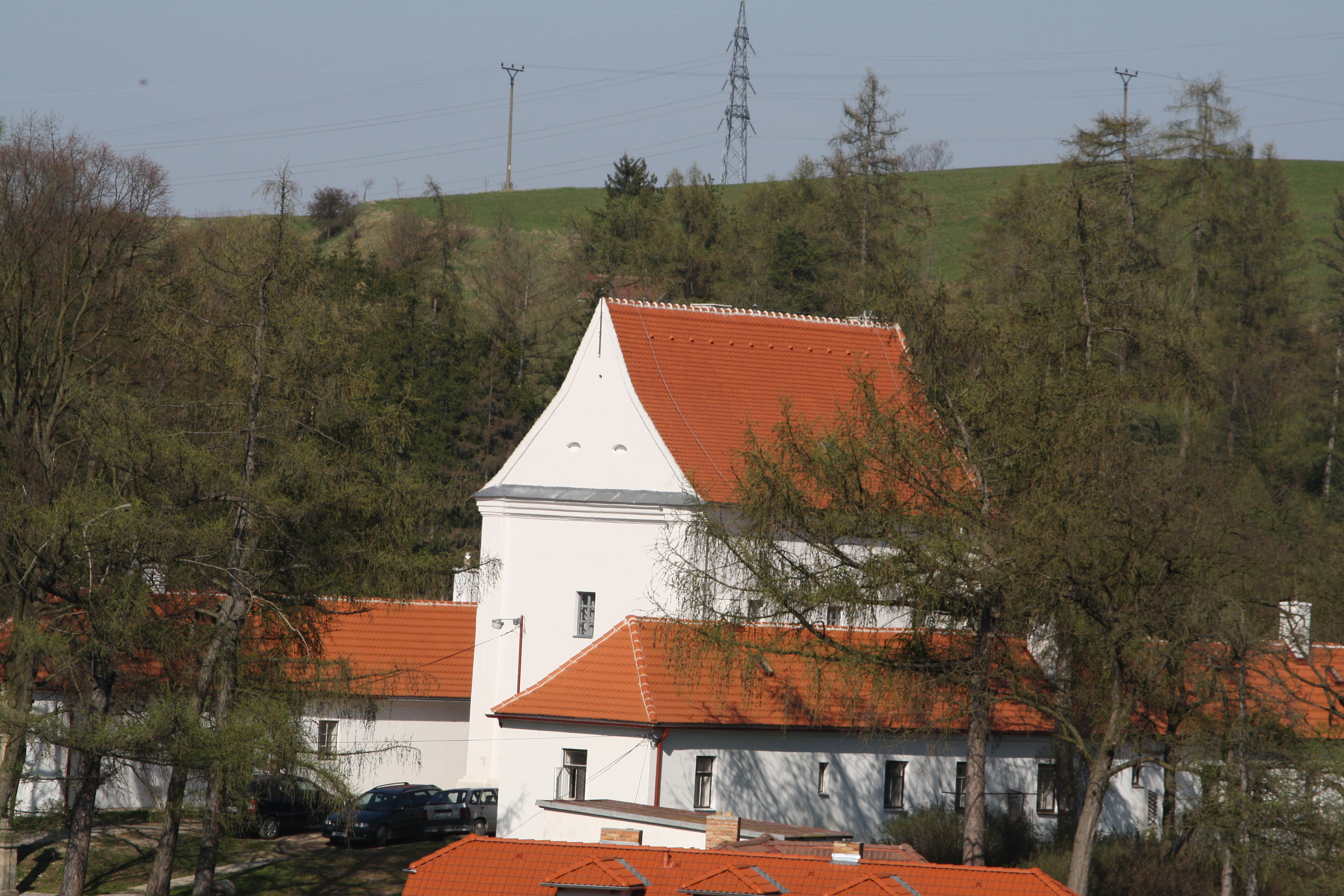 Overview of Chapel of Saint Mary of Help in Brtnice.